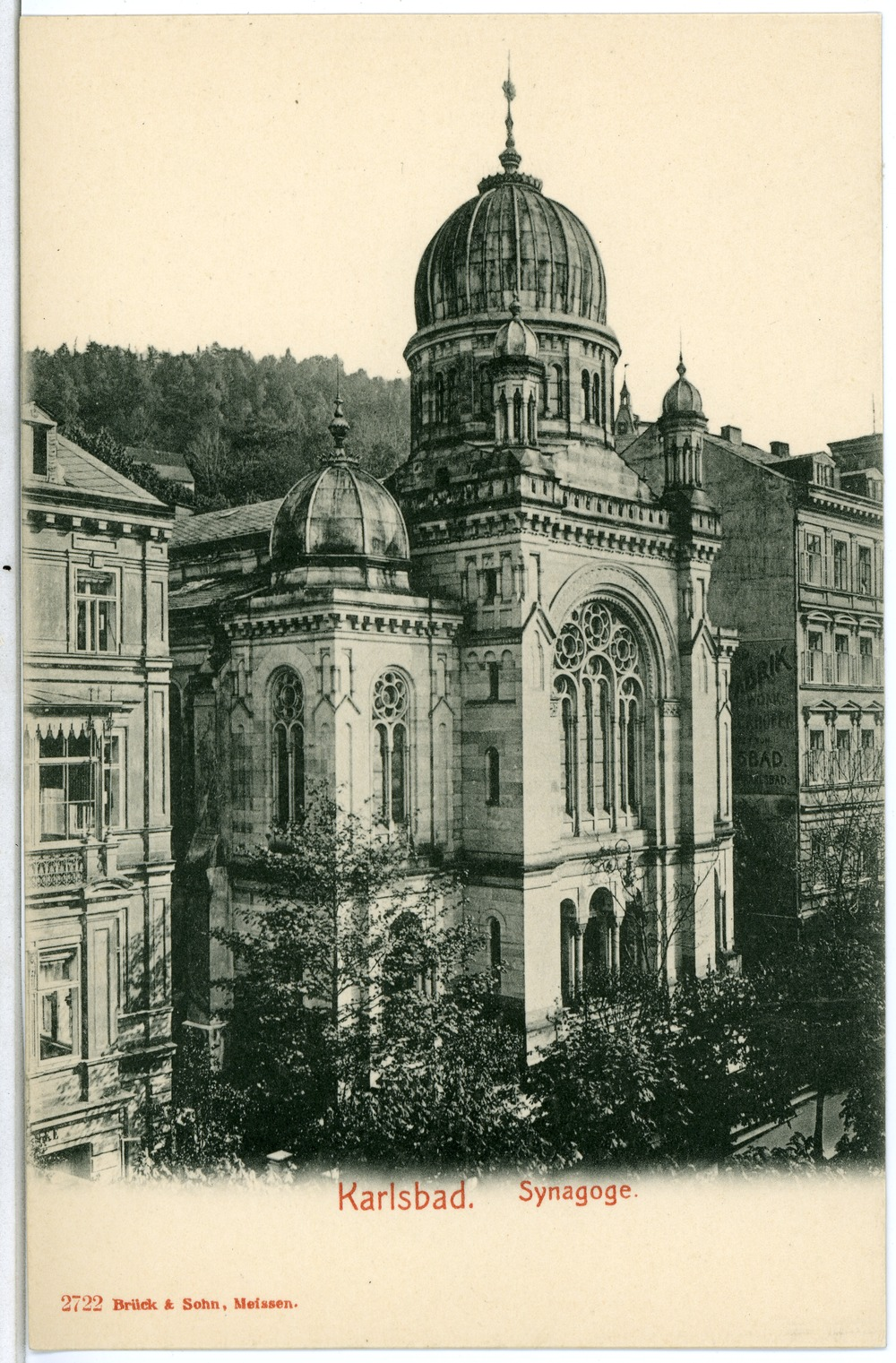 This postcard is from publisher Brück & Sohn in Meißen ( This postcard has a unique number 02722 and is available in a higher resolution at the publisher. This images was uploaded in a cooperation project between Wikipedians and the publisher.